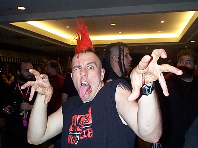 Andy Deane of Bella Morte at DragonCon © 2005 Paul W. Cashman Summary Photo taken by Paul Cashman. Released under Creative Commons Attribution 2.0